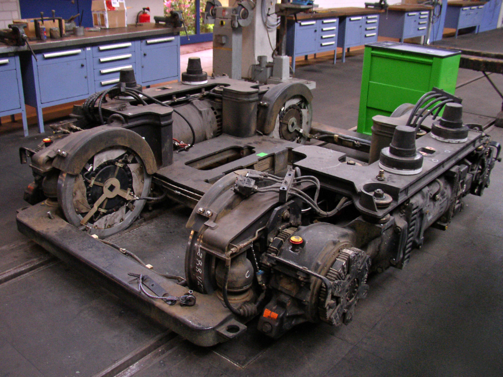 Tram chassis of a Combino